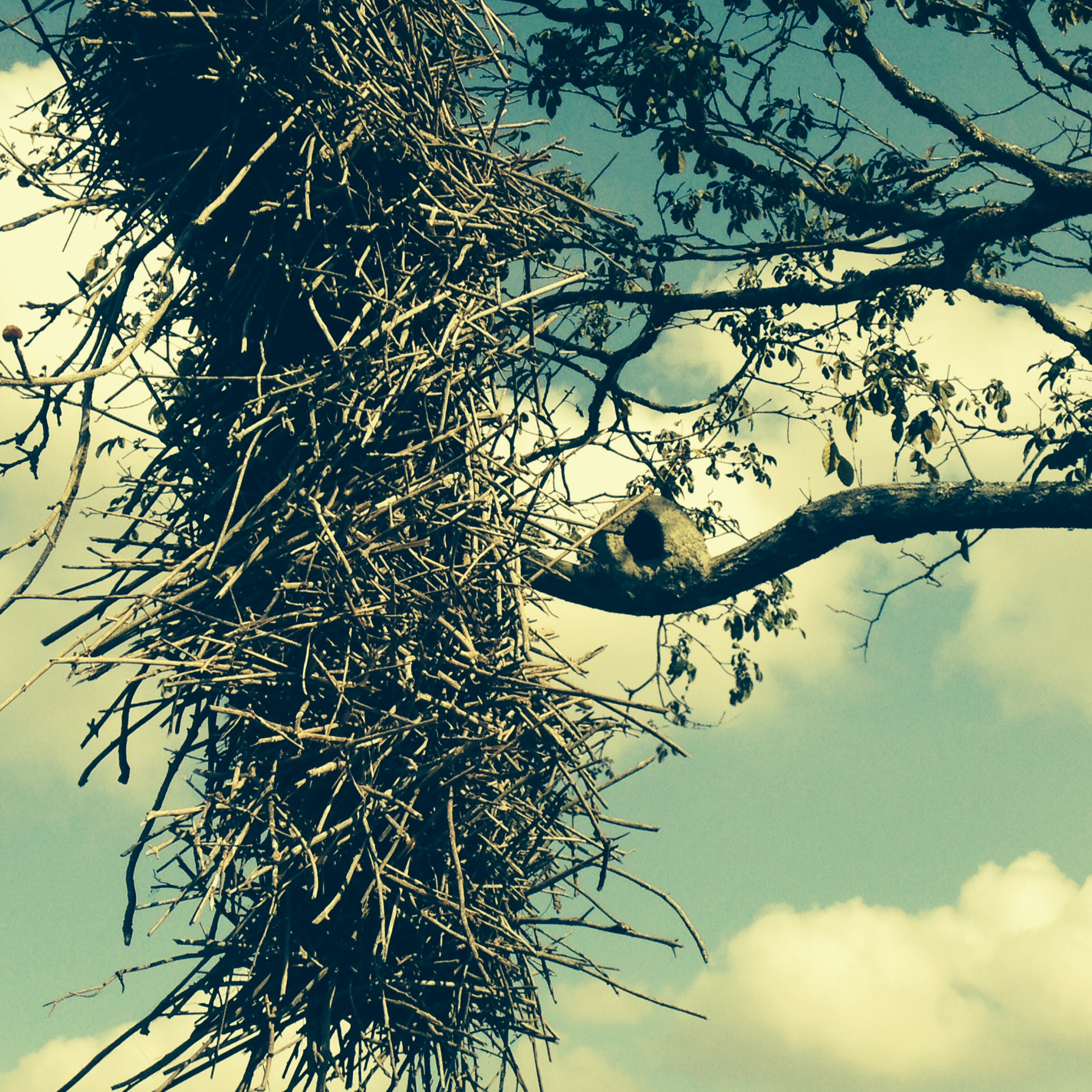 Ninho joão-graveto e do joão-de-barro